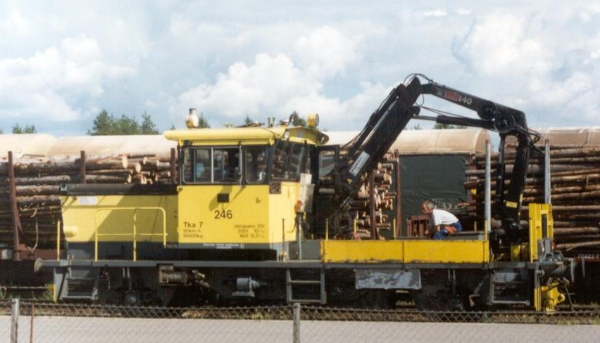 A Finnish VR-owned track lorry of Tka7 class at Kemi.